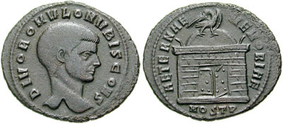 Follis with Divus Romulus, son of usurper Maxentius. 309-312.